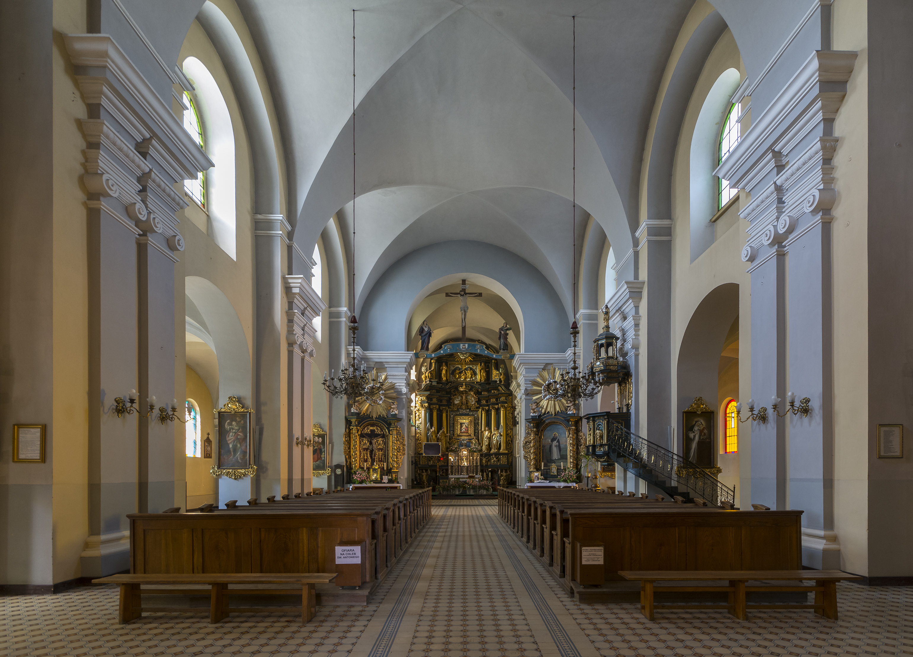 Church of the Assumption in Tarnobrzeg Ta fotografia przedstawia zabytek wpisany do rejestru zabytków pod numerem ID 632593